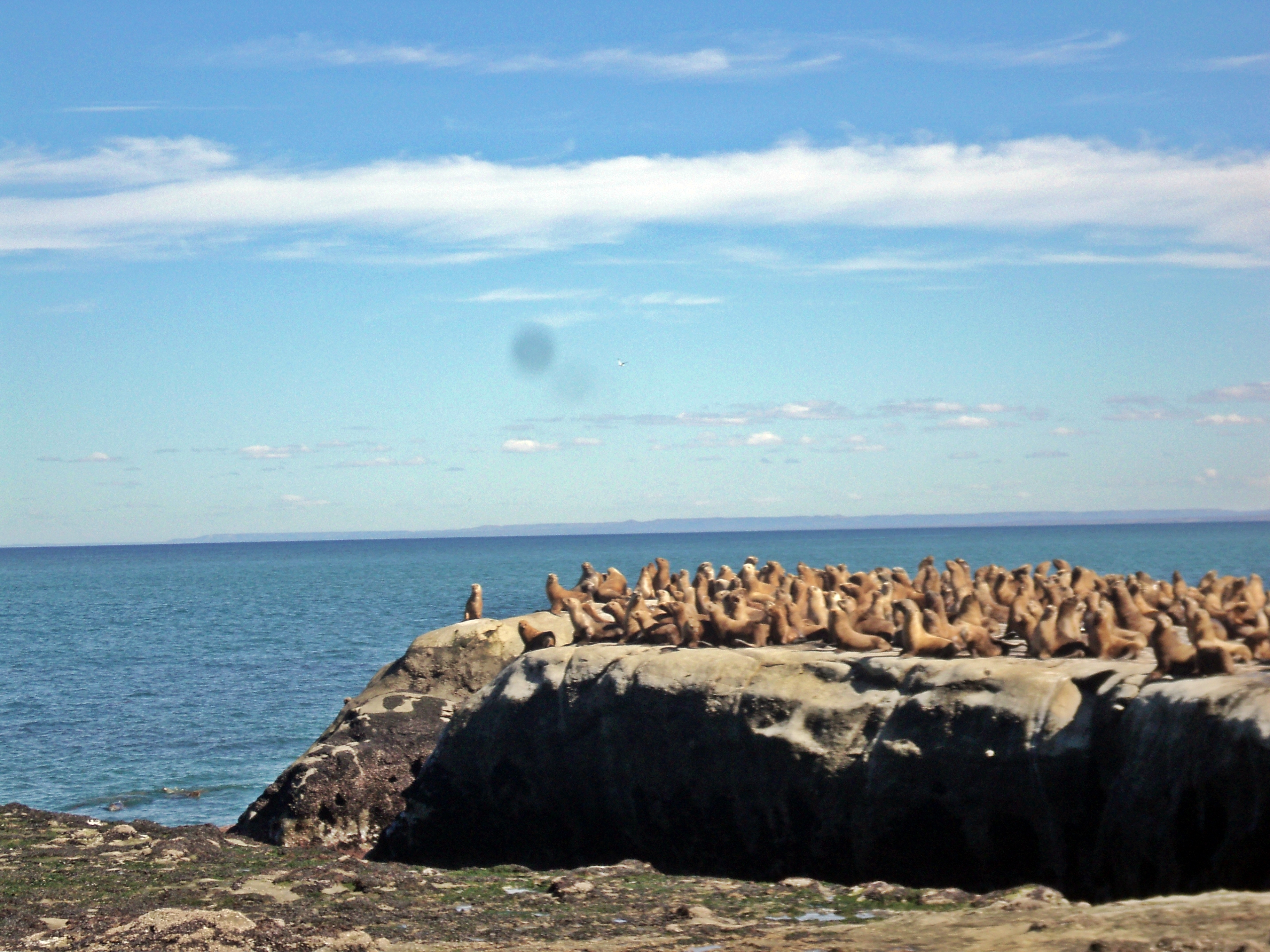 South American sea lions in Punta del Marqués. Rada Tilly, argentina.